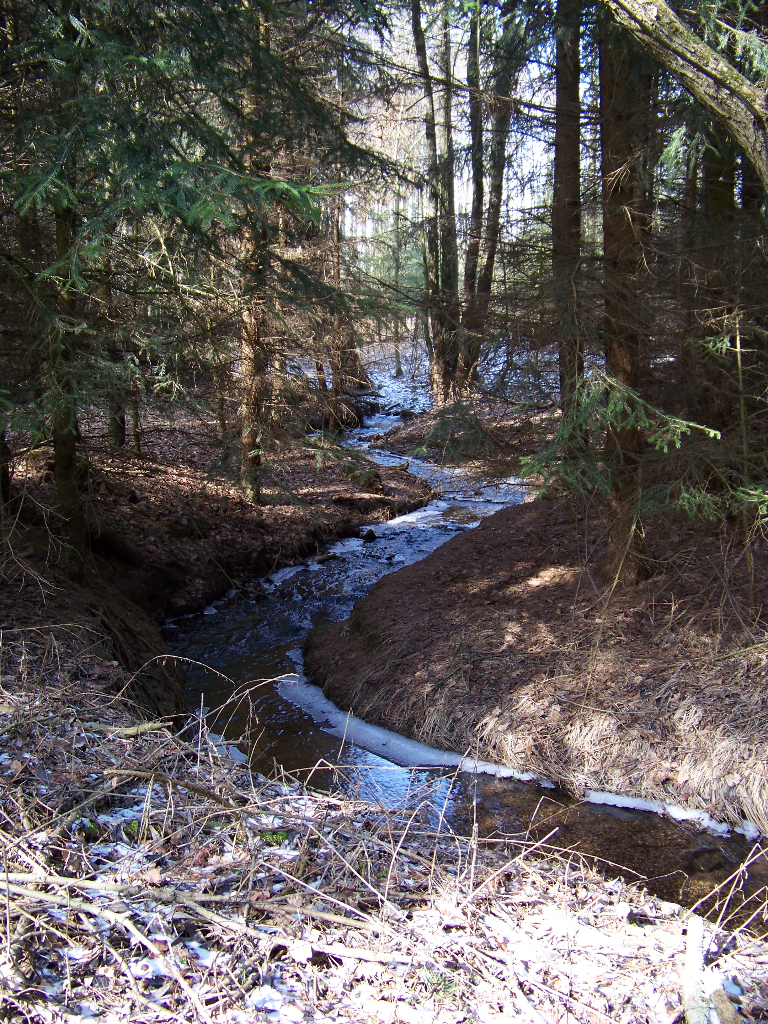 Smolotely-Draha, Příbram District, Central Bohemian Region, the Czech Republic. Stěžovský Creek, near Dalskabáty. - OpenStreetMap(Info)